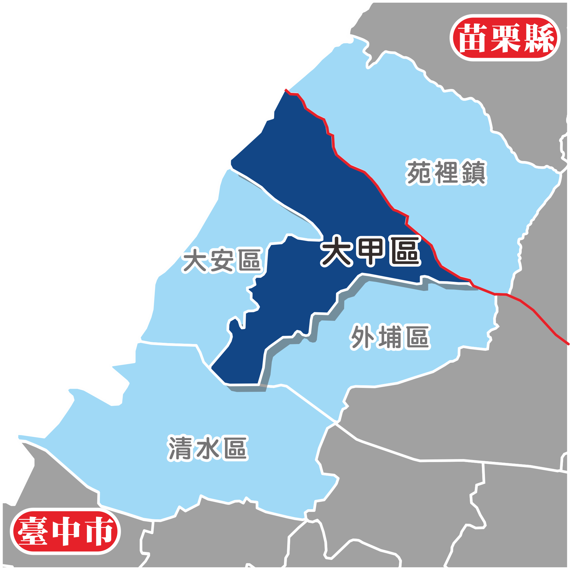 Dajia District